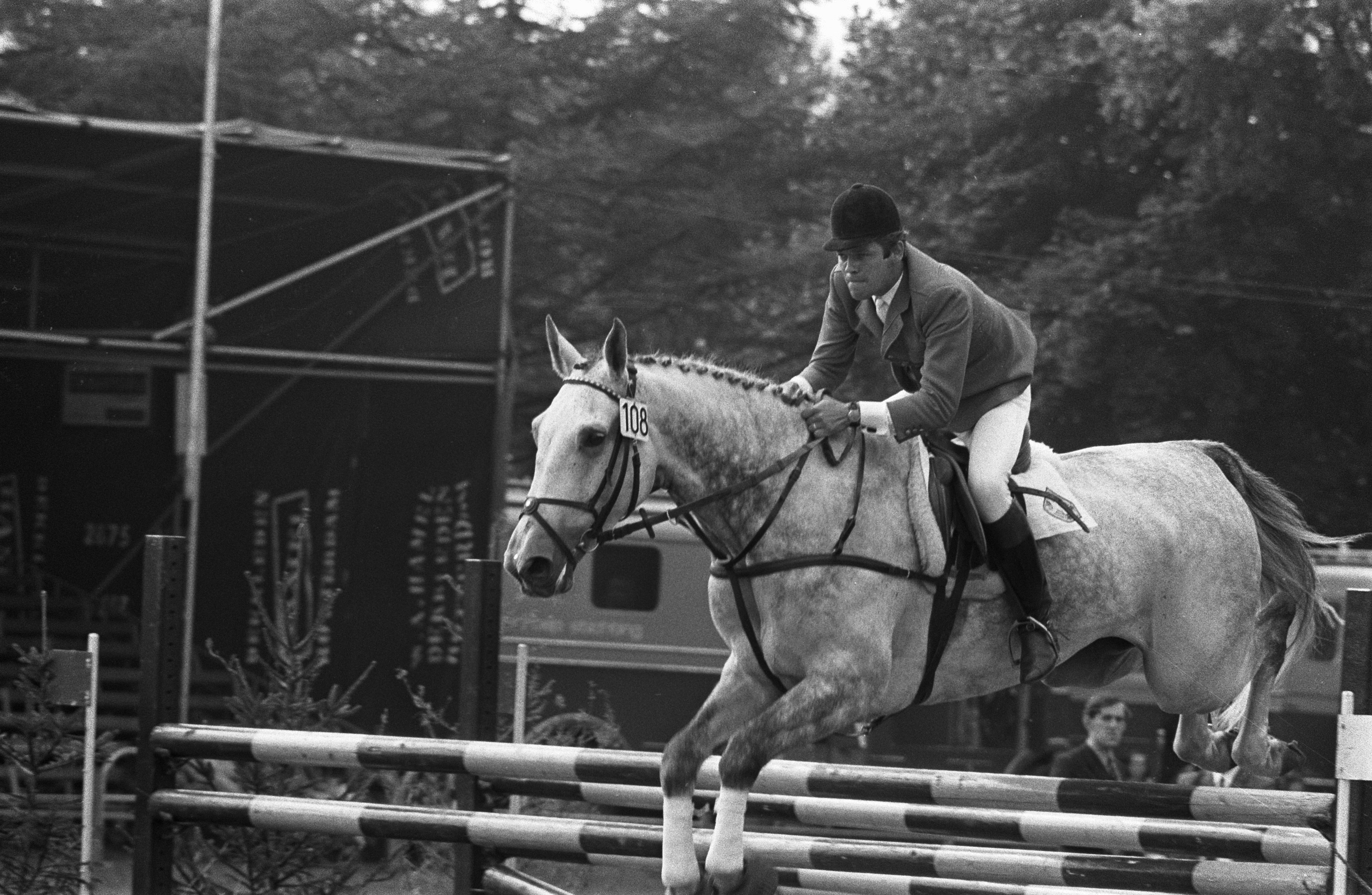 Depicted person: Fritz Ligges – West German equestrian